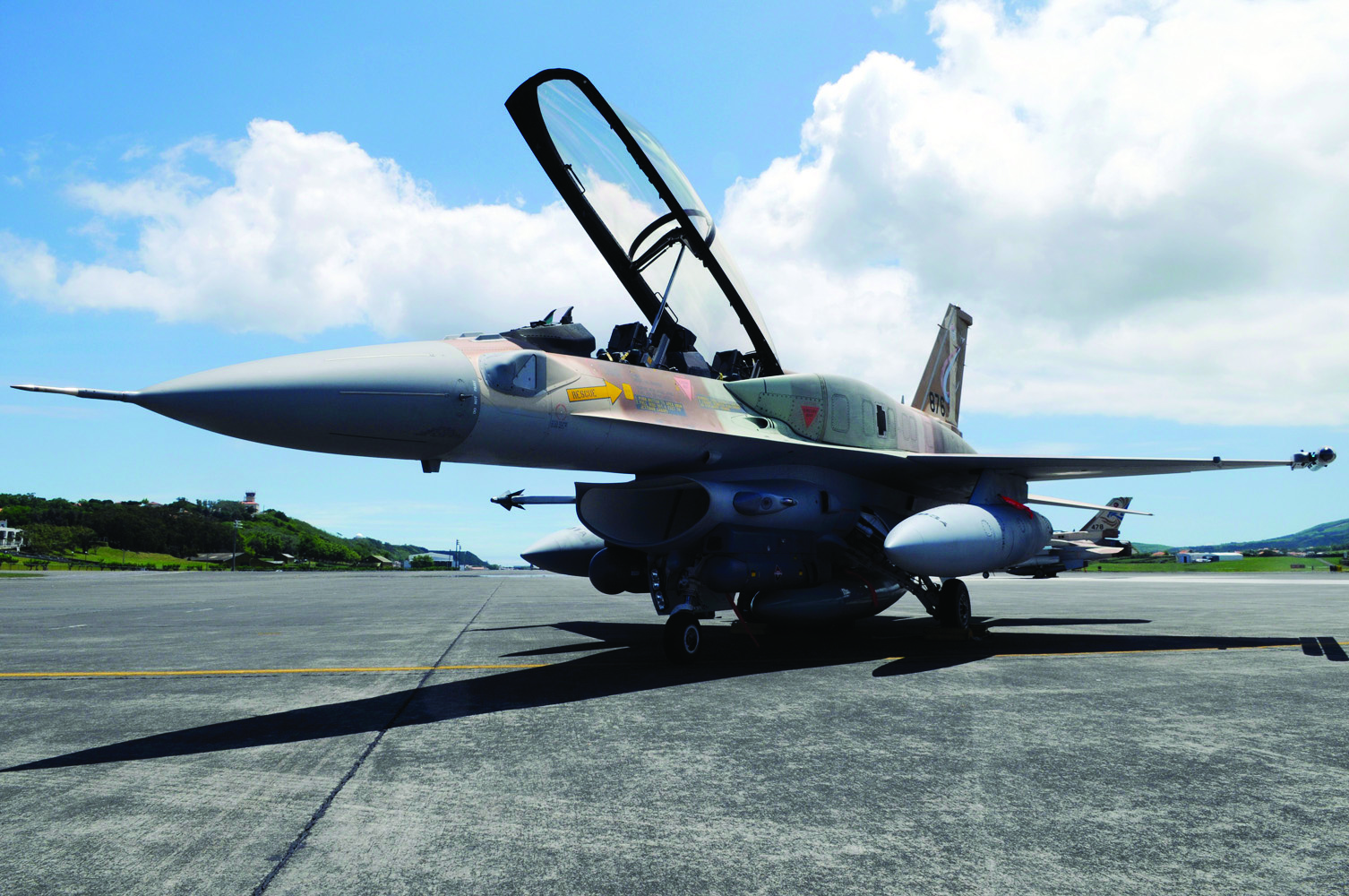 An Israeli air force F-16 sits on the aircraft parking ramp at Lajes Field, Azores, Portugal, on July 9. Several IAF aircraft made a stop here en route to Nellis Air Force Base, Nev., where they will take part in Red Flag exercises.